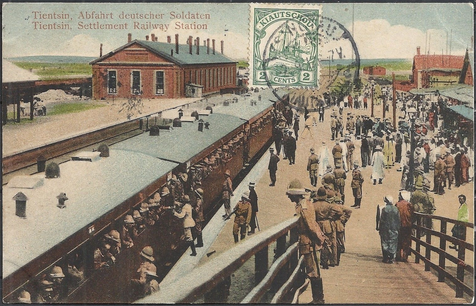 German soldiers in Tianjin railway station(postcard), in 1900